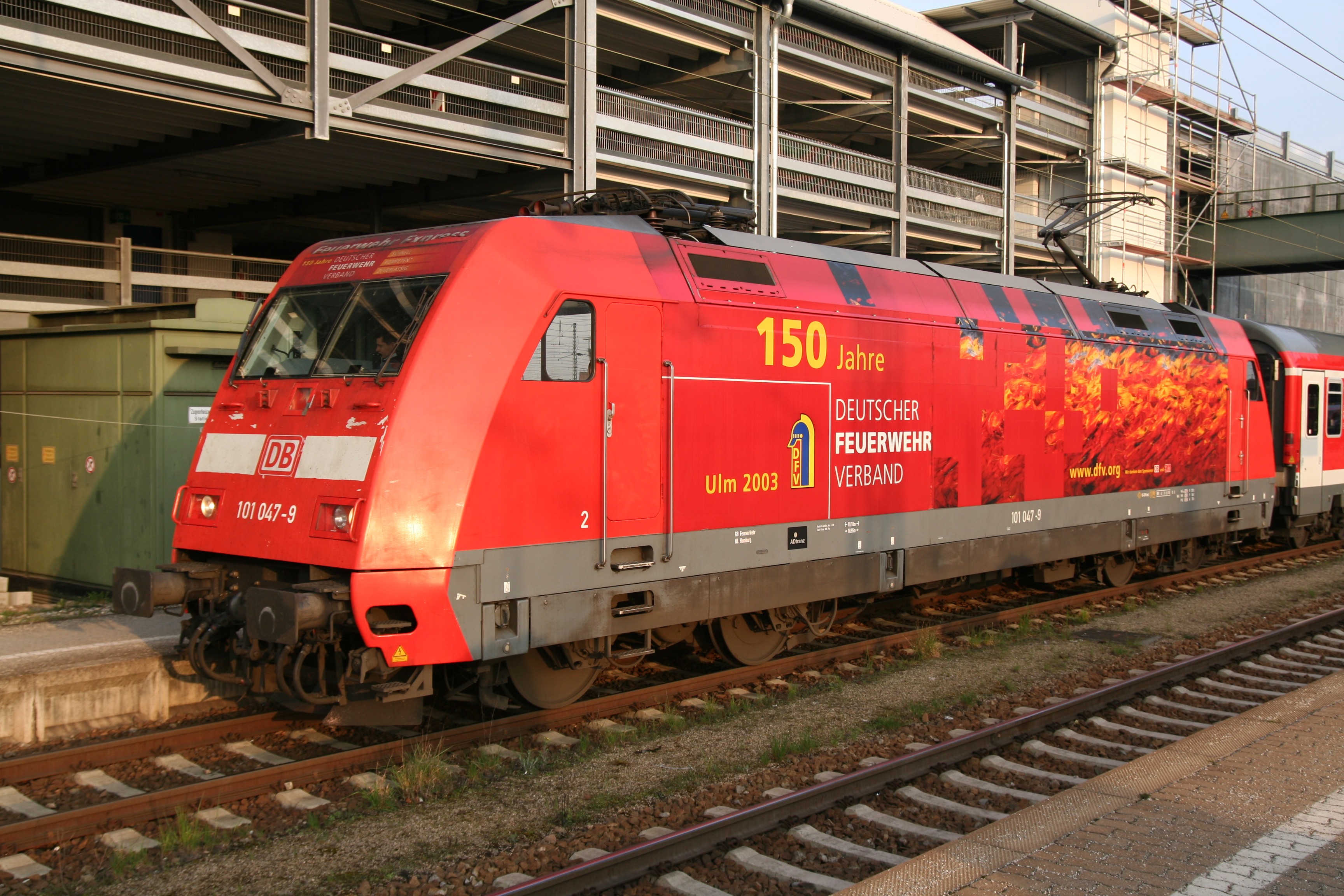 A DB class 101 with advertisement for the Deutsche Feuerwehrverband (German firefighters' association) at the main railway station of Ingolstadt